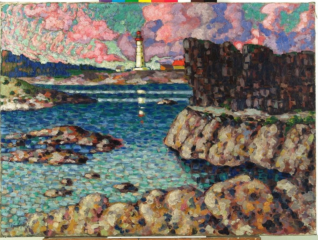 Mägi, Konrad. Landscape of Vilsandi. 1913‒1914. Tartu Art Museum